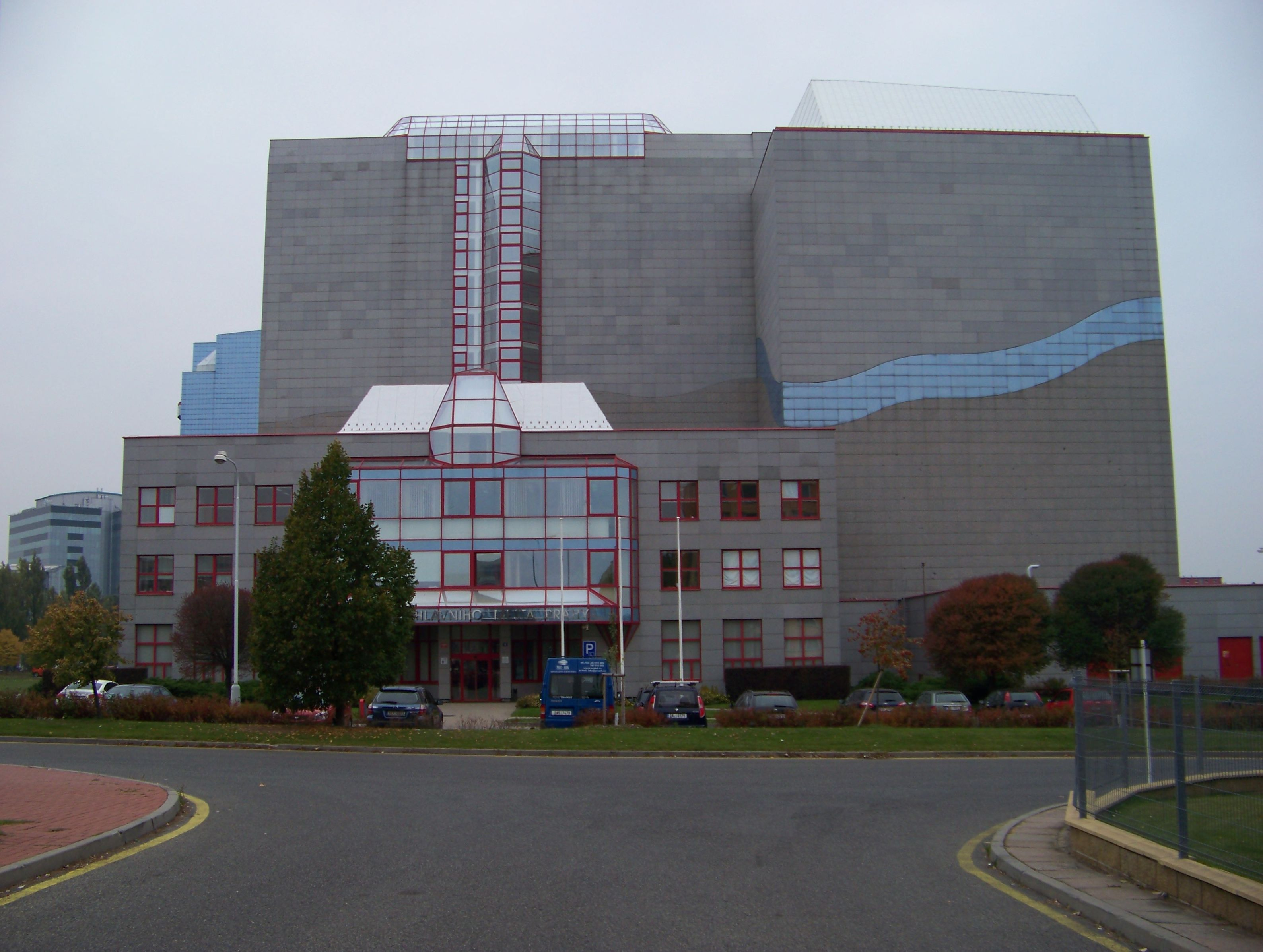 Prague-Chodov. Chodovec, Archivní 1280/6, Archive of Prague.